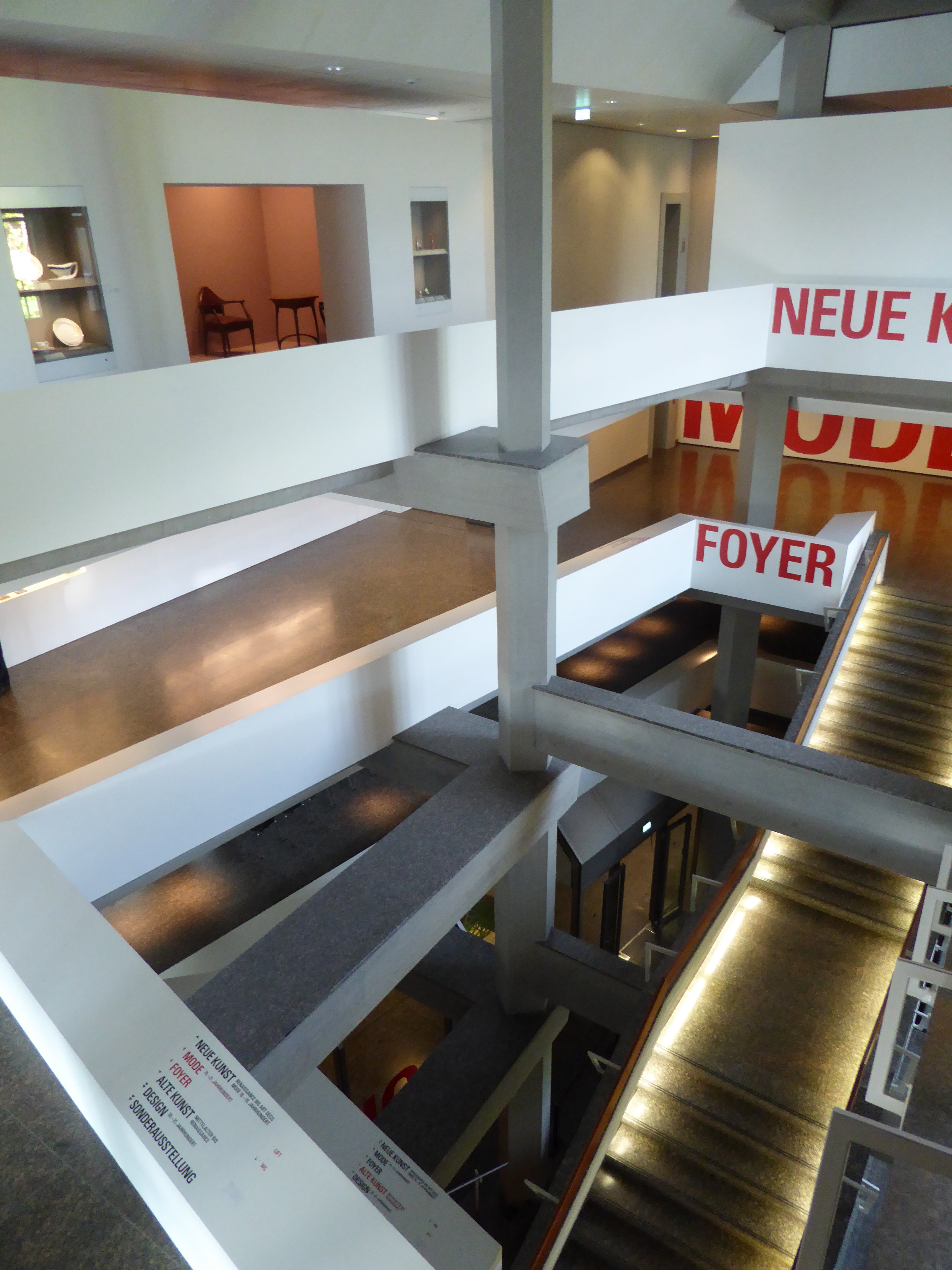 Kunstgewerbemuseum Berlin Kulturforum staircases